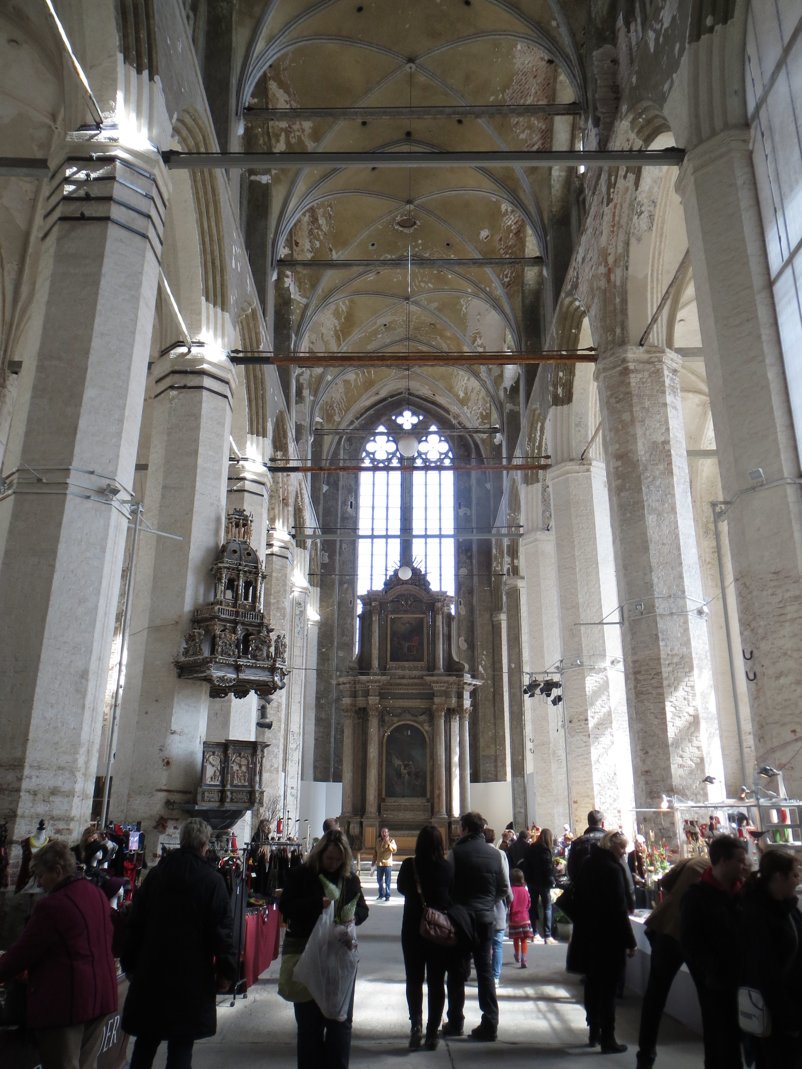 Interior of St Jakobi in Stralsund